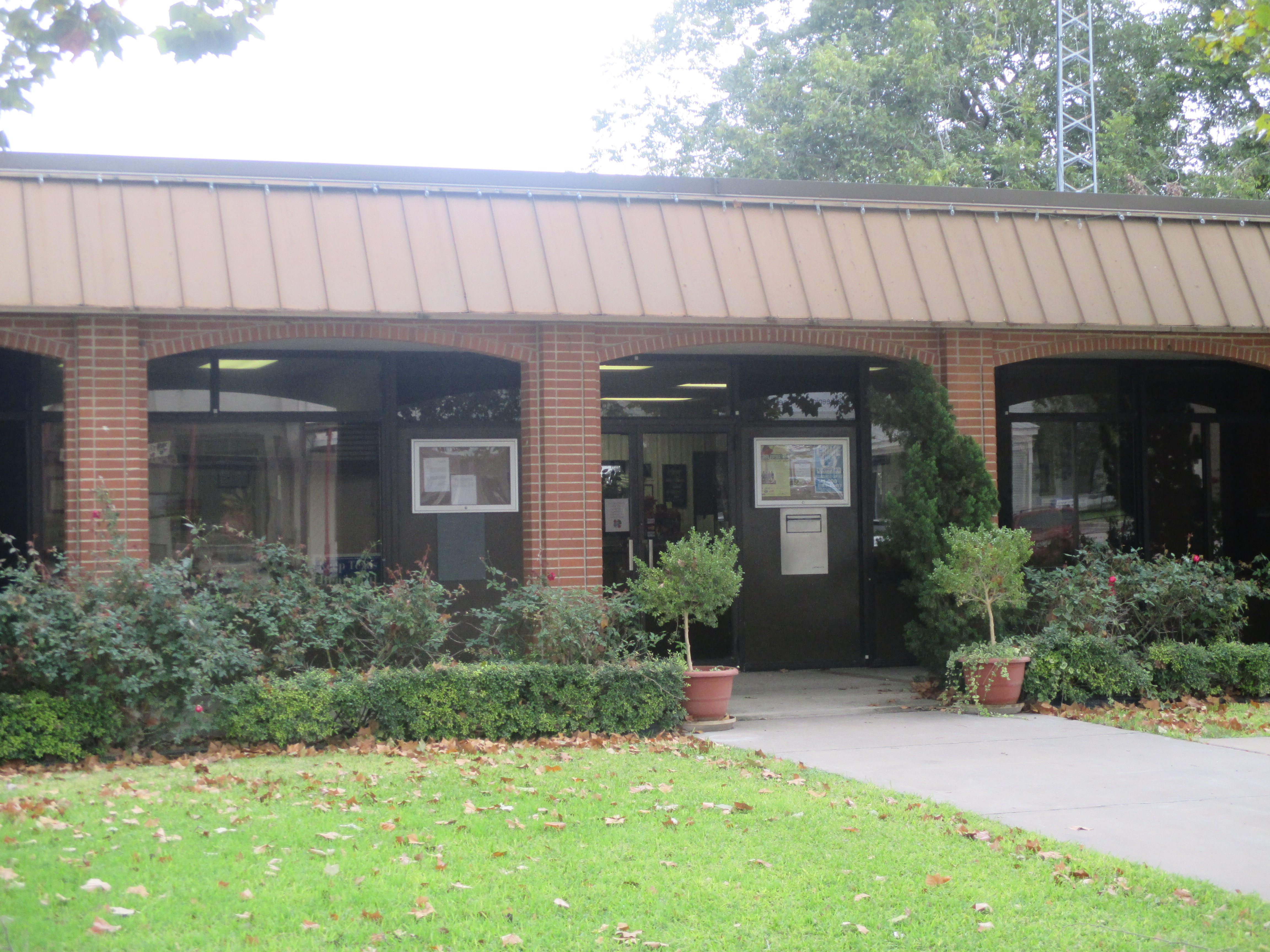 Flatonia, TX, City Hall, 125 E. South Main St.